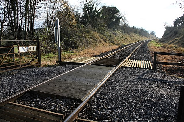 Railway crossing Railway line and crossing beside Lough Owel, Mullingar.